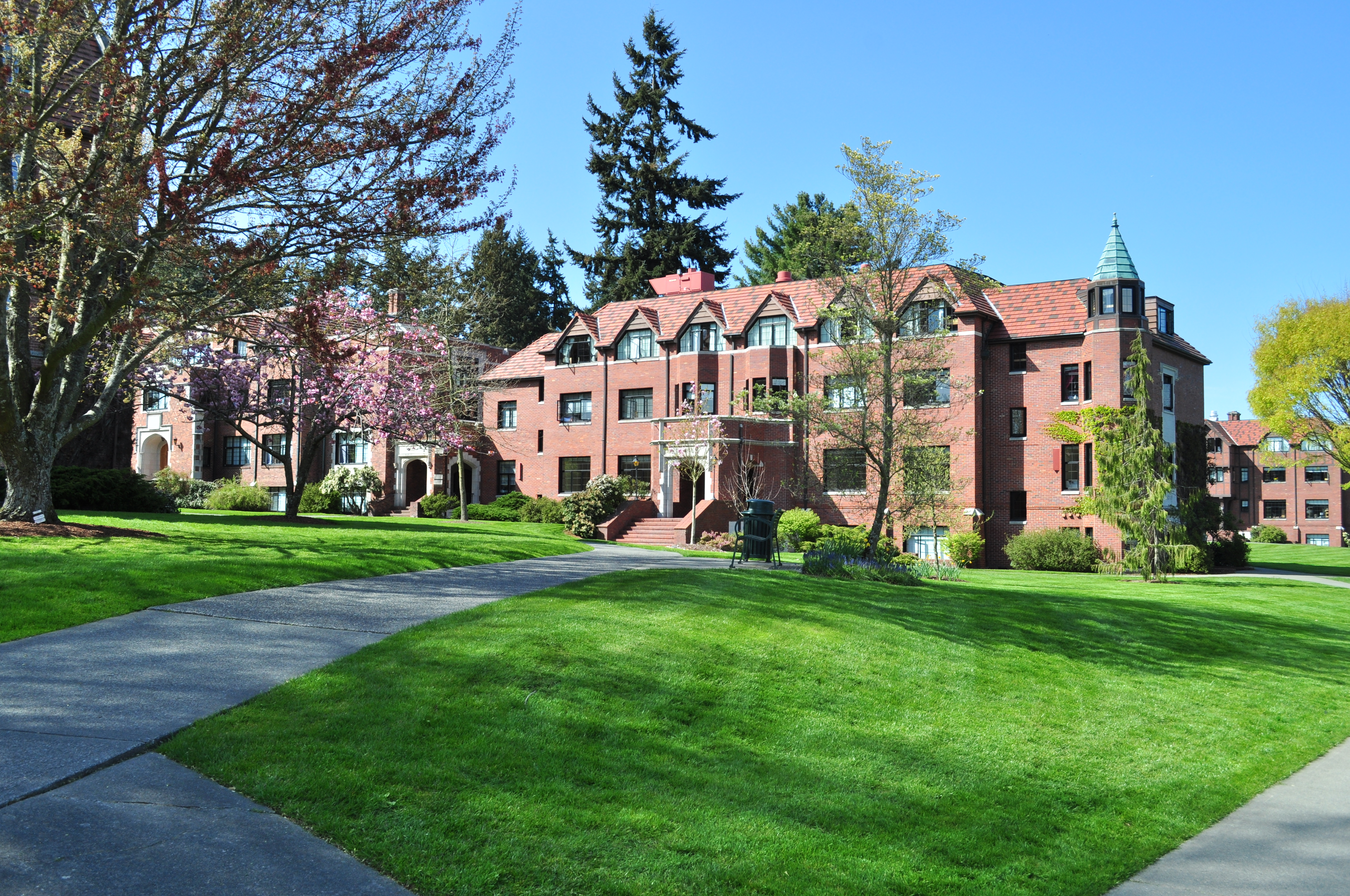 University and Smith Halls, University of Puget Sound, Tacoma, Washington.